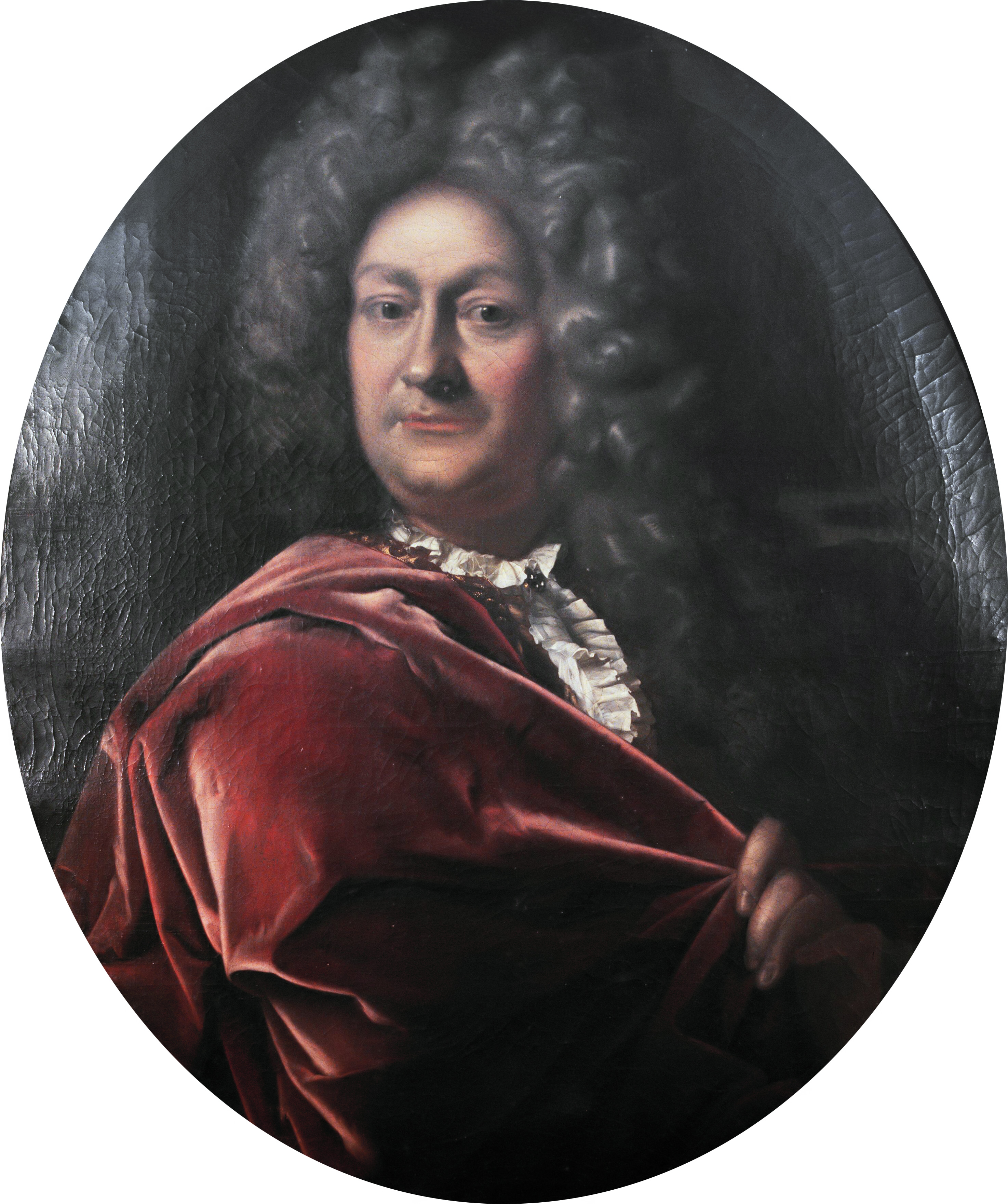 Adriaen Paets (1656-1712) oil on canvas 80 x 66 cm signed c.l. 1705